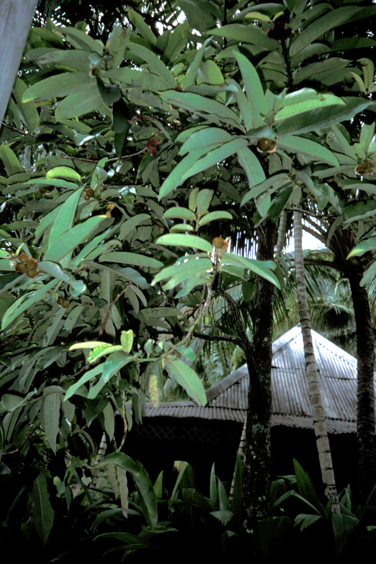 Diospyros blancoi (syn. D. discolor), habit. Location: Maui, Kepaniwai